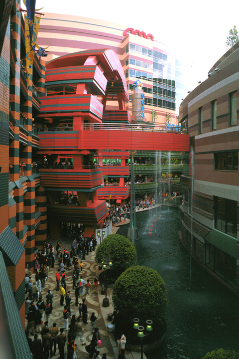 Mixed-use development in Fukuoka, Japan, designed by The Jerde Partnership and completed in 1996. Shopping mall, a movie theater, amusement facilities, two hotels, showrooms and corporate offices.